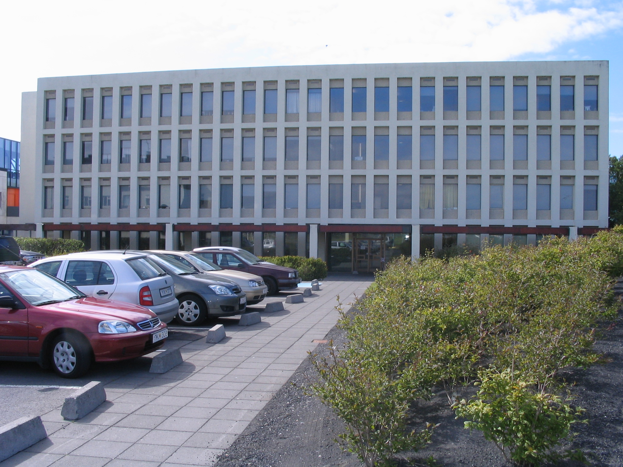 Logberg. The University of Iceland School of Law